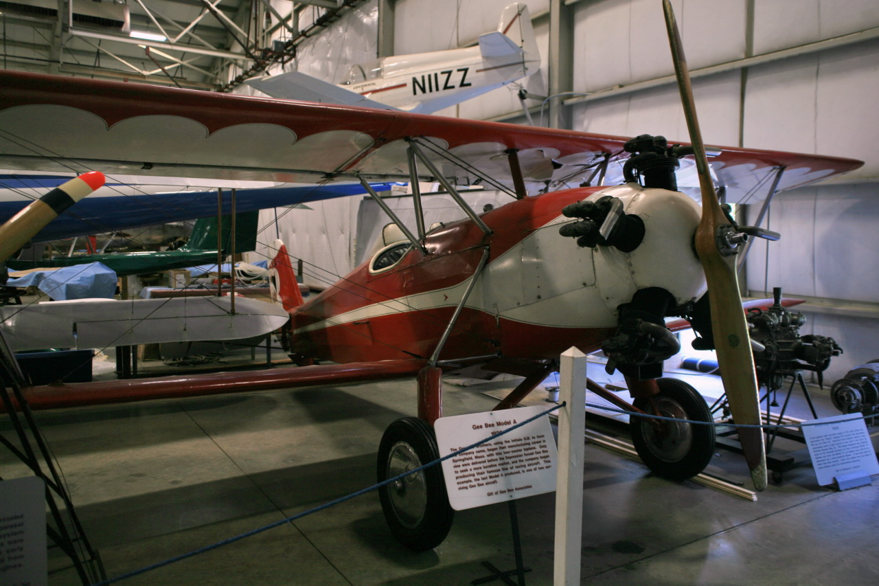 The Gee Bee Model A Sportster was the first in a line of sport planes and racers produced by the Granville Brothers. The prototype was designed and built by Zantford (Granny) Granville at the East Boston Airport and had many innovative features such as side-by-side seating to promote conversation, "overhead" control sticks so that a lap robe could be used in the winter, full-span ailerons, etc. Eighteen of these biplanes were built, most in a plant provided by the Granvilles in Springfield, MA.